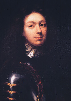 Antoine V (1671-1726) IVth Duke of Gramont (1720) Sovereign of Bidache Count of Guiche and of Louvigny Colonel General of the Gardes-Françaises (1703) Peer of France (1720) Marshal of France (1723) Governor of Bayonne Son of Antoine IV Charles Married Marie Christine de Noailles in 1687